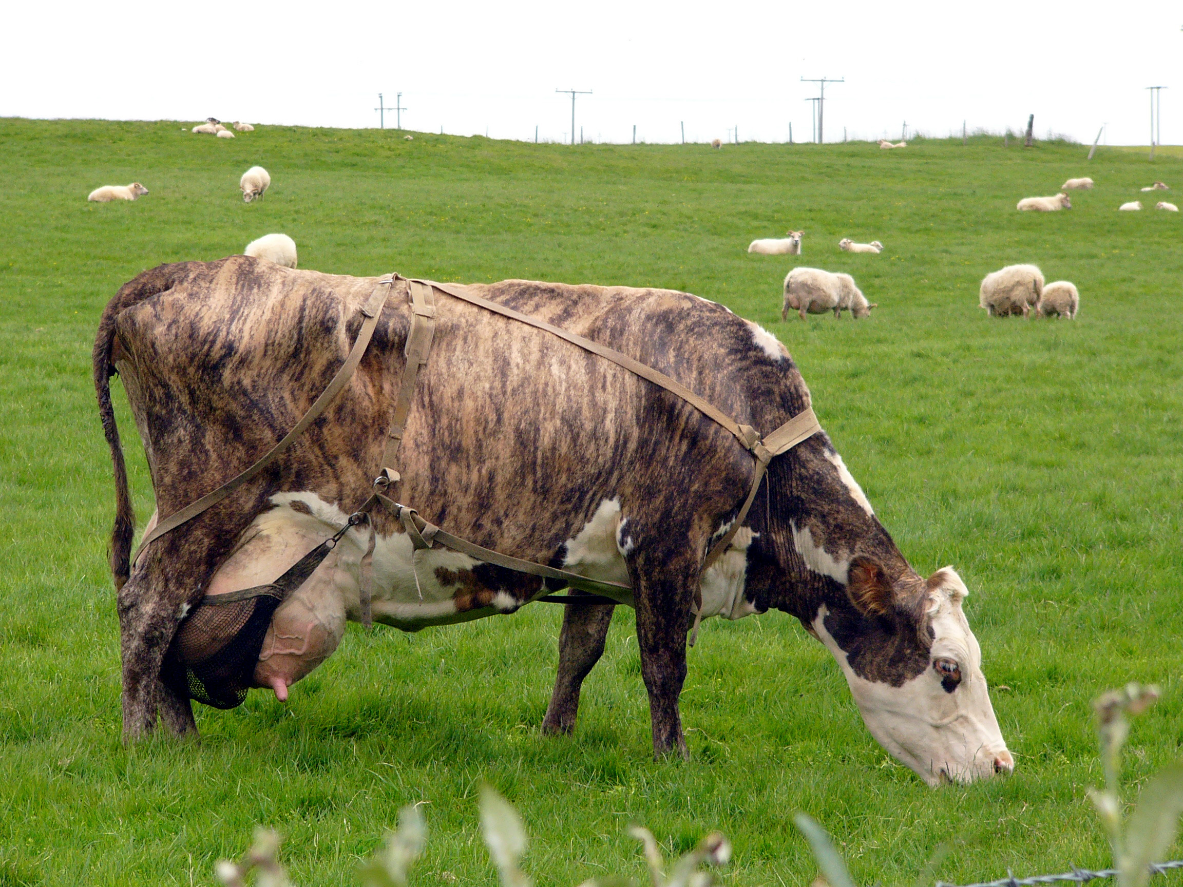 An Icelandic cow, in a pasture with Icelandic sheep – Church in Hlíðarendi.